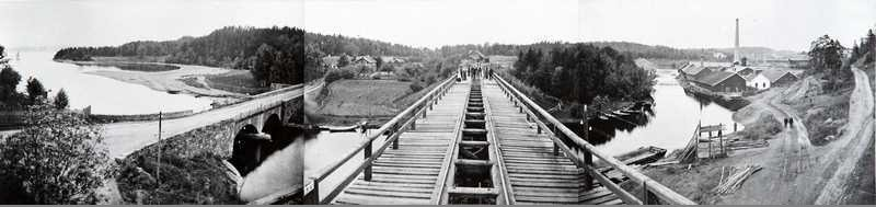 Bridge over Lysakerleven of the Drammen Line, looking at Lysaker Station in Bærum, Norway.